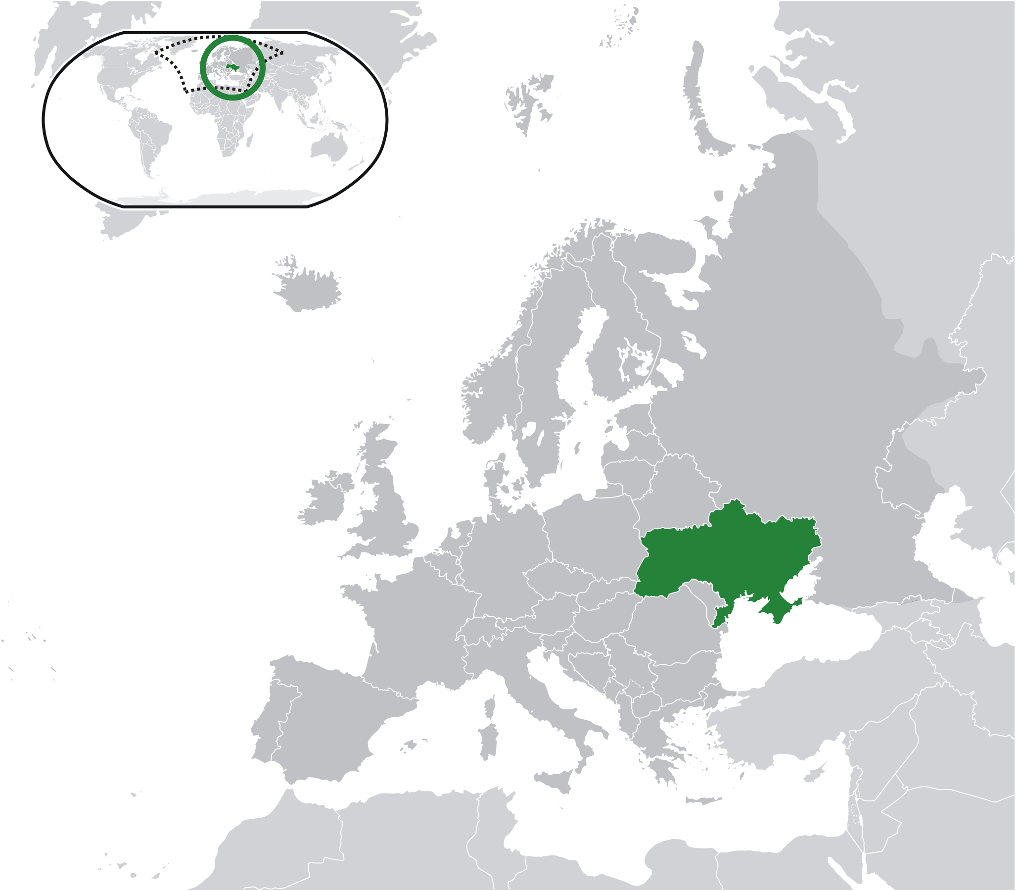 Ukraine (dark green) / Europe (dark grey); inspired by and consistent with general country locator maps by User:Vardion, et al